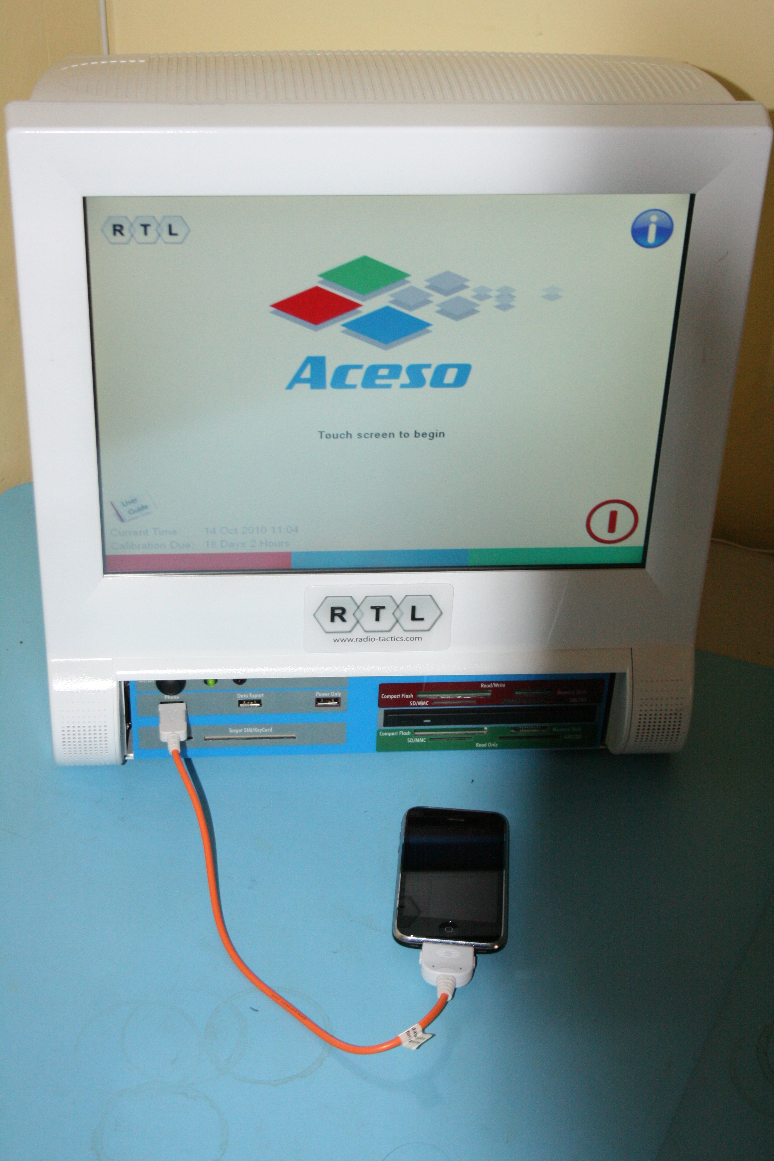 A picture of RTL Acesos mobile phone forensics unit with an iPhone attached to it